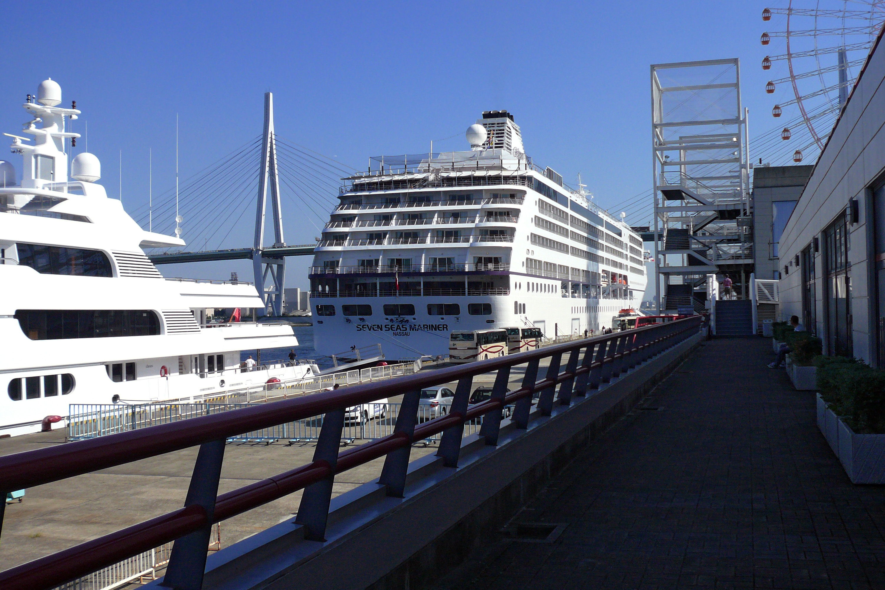 "SEVEN SEAS MARINER" at "Tenpozan Wharf" of the Osaka harbor ( Osaka, Osaka prefecture, Japan)